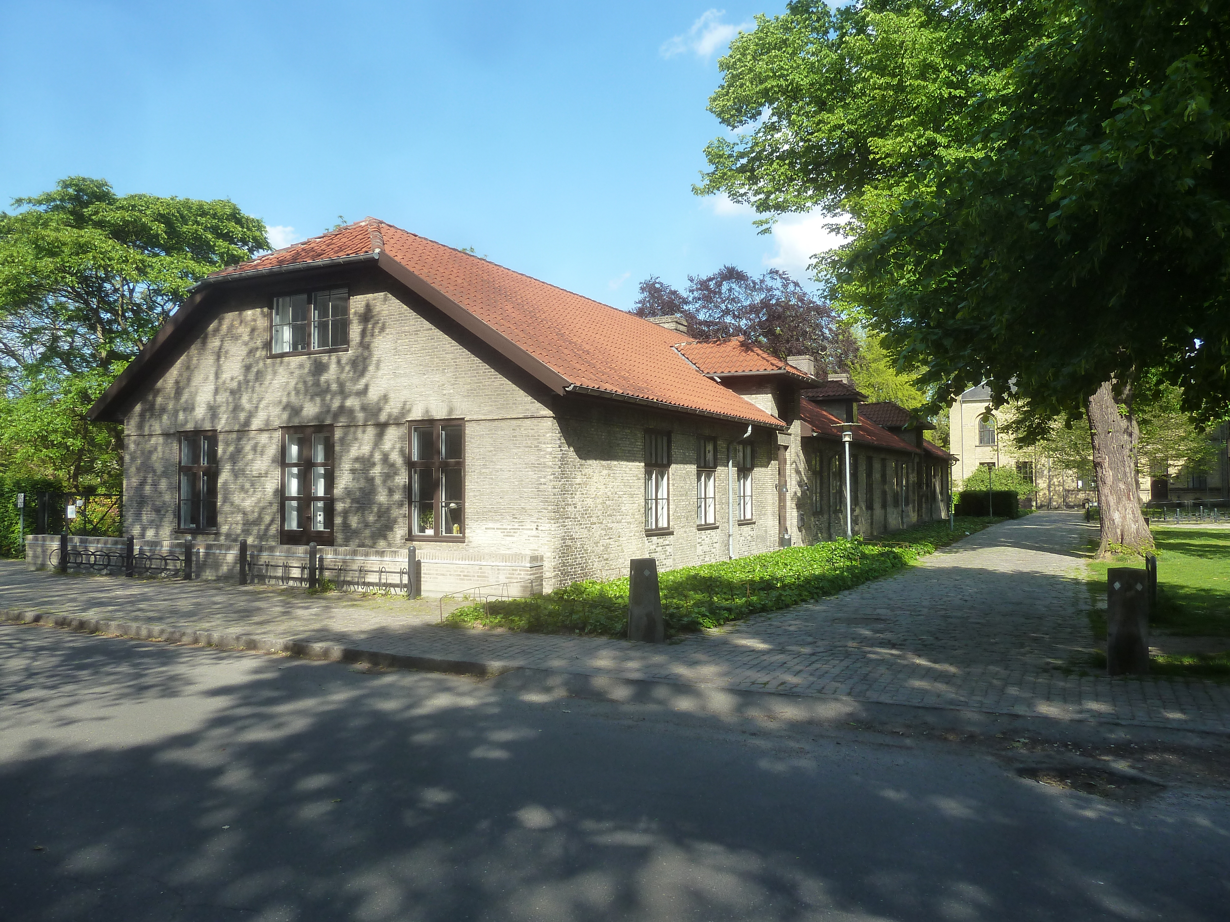 Grønnegårdsvej 10, part of University of Copenhagen's Frederiksberg Campus in Copenhagen, Denmark